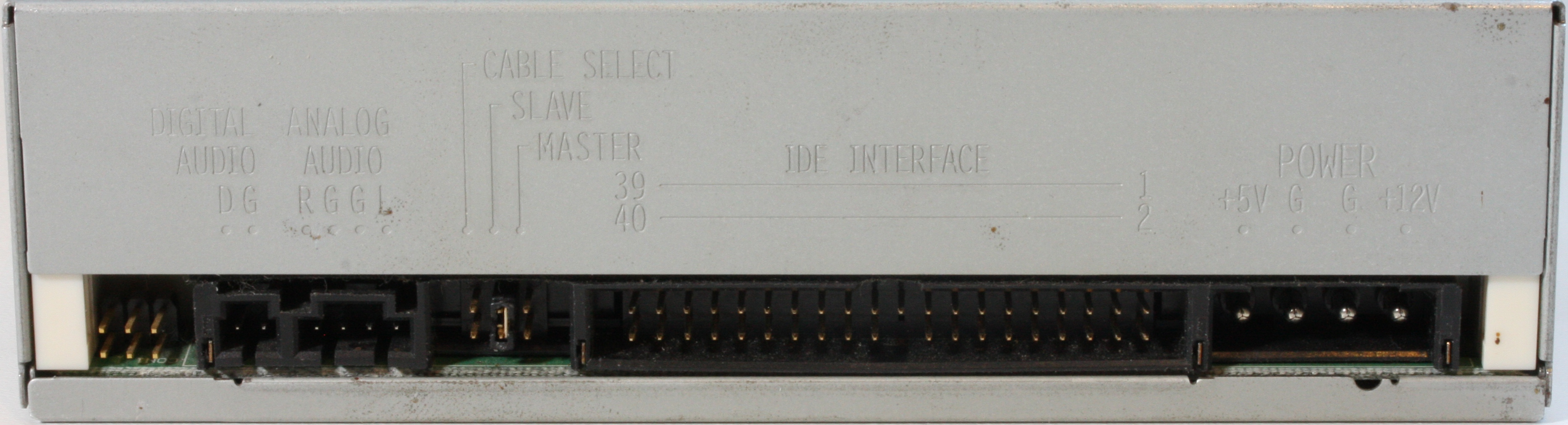 back of a modern CD-ROM drive